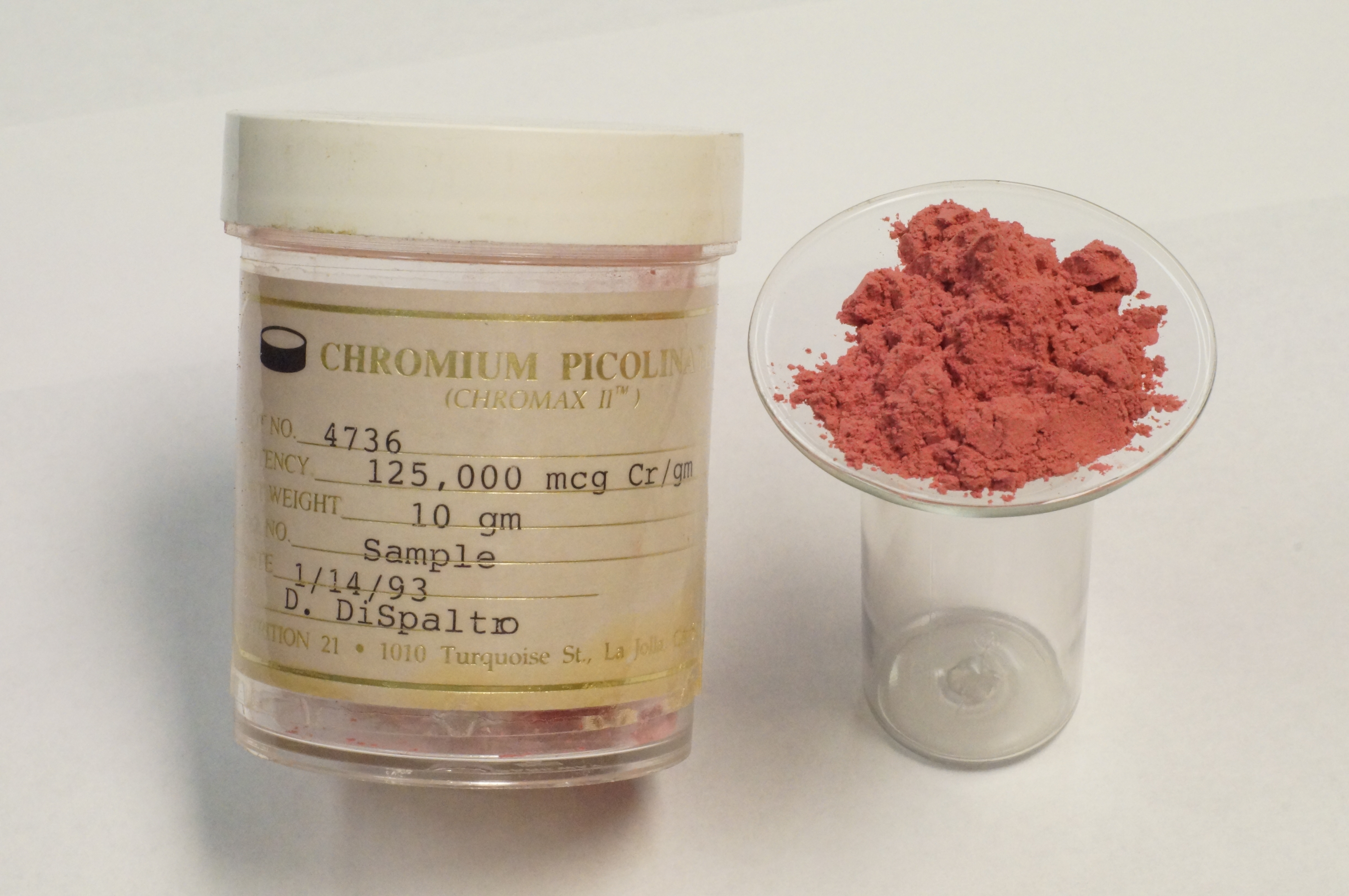 Watchglass holds two grams of "Chromax II" pure chromium picolinate powder from NUTRITION 21, originally supplied to be used in a rodent feeding experiment in 1993. The substance is a reddish crystalline powder, very sparingly soluble in water. It is 12.5% chromium (III) by weight.